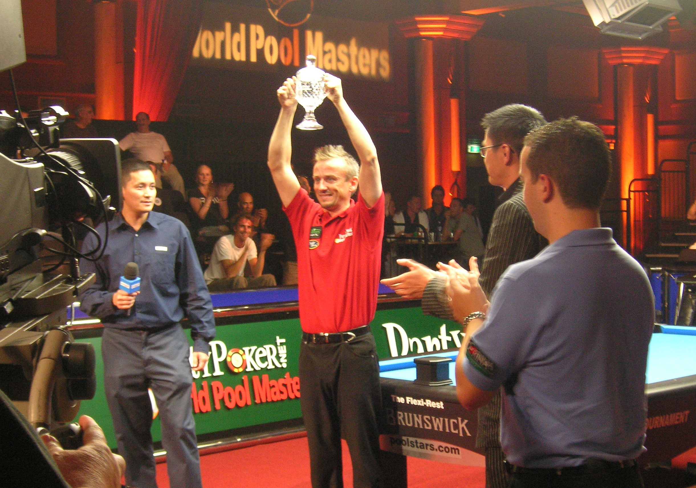 Thomas Engert at the World Pool Masters 2007